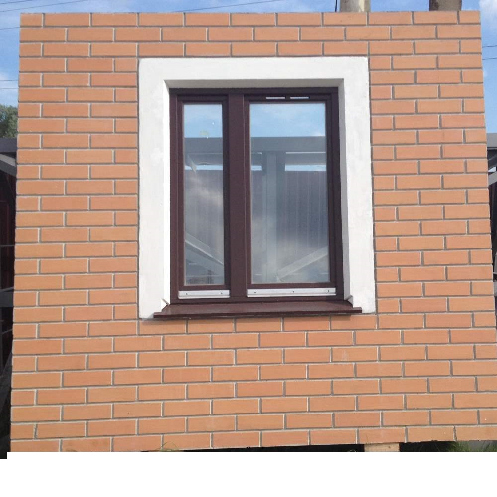 Клинкерная панель дск